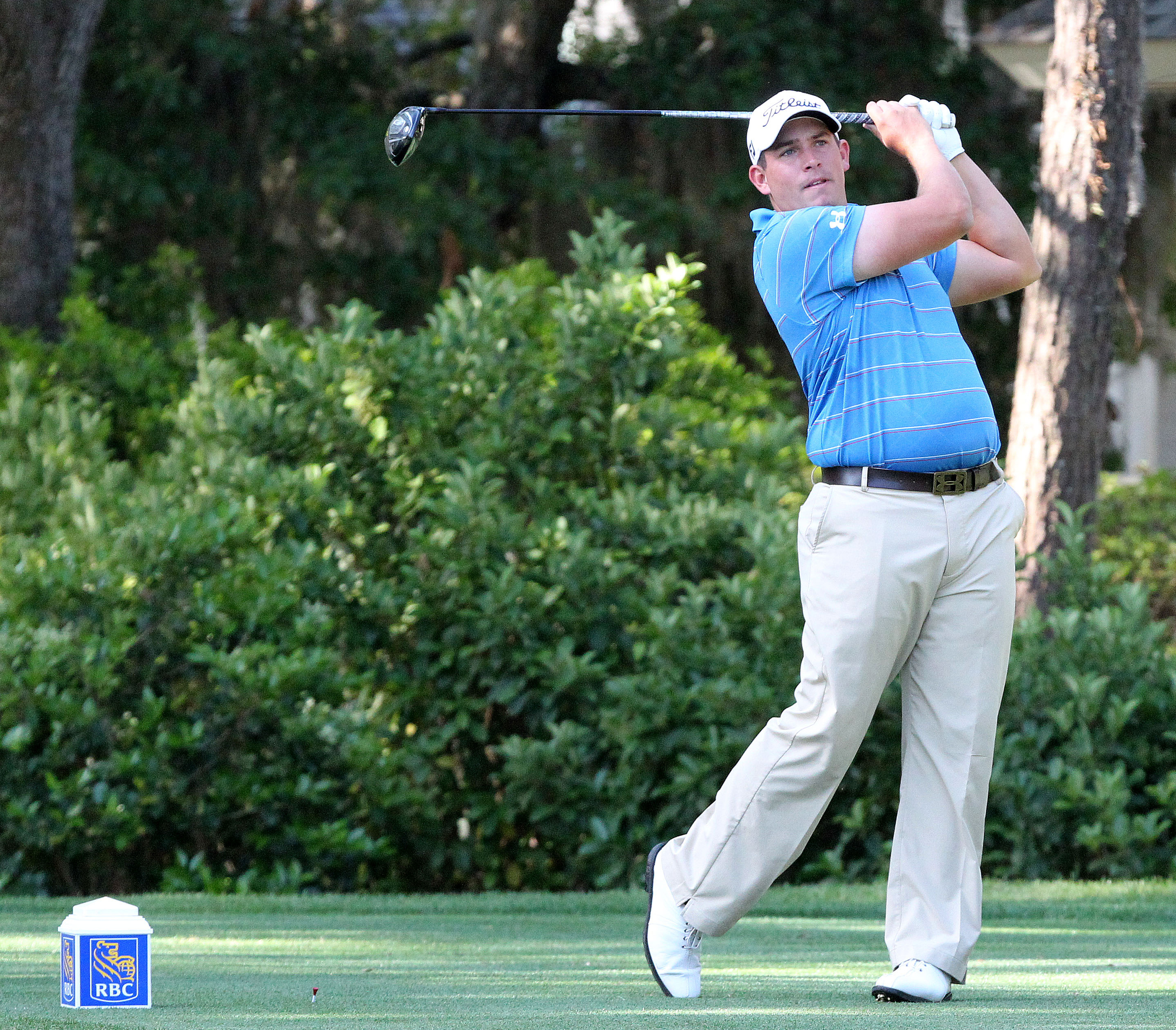 RBC Heritage Practice Round April 11, 2012 in Hilton Head, SC